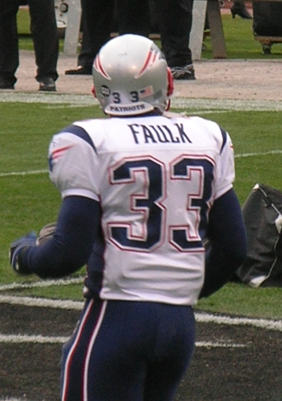 New England Patriots running back Kevin Faulk on the field prior to an away game against the Oakland Raiders. The Patriots won 49-26.